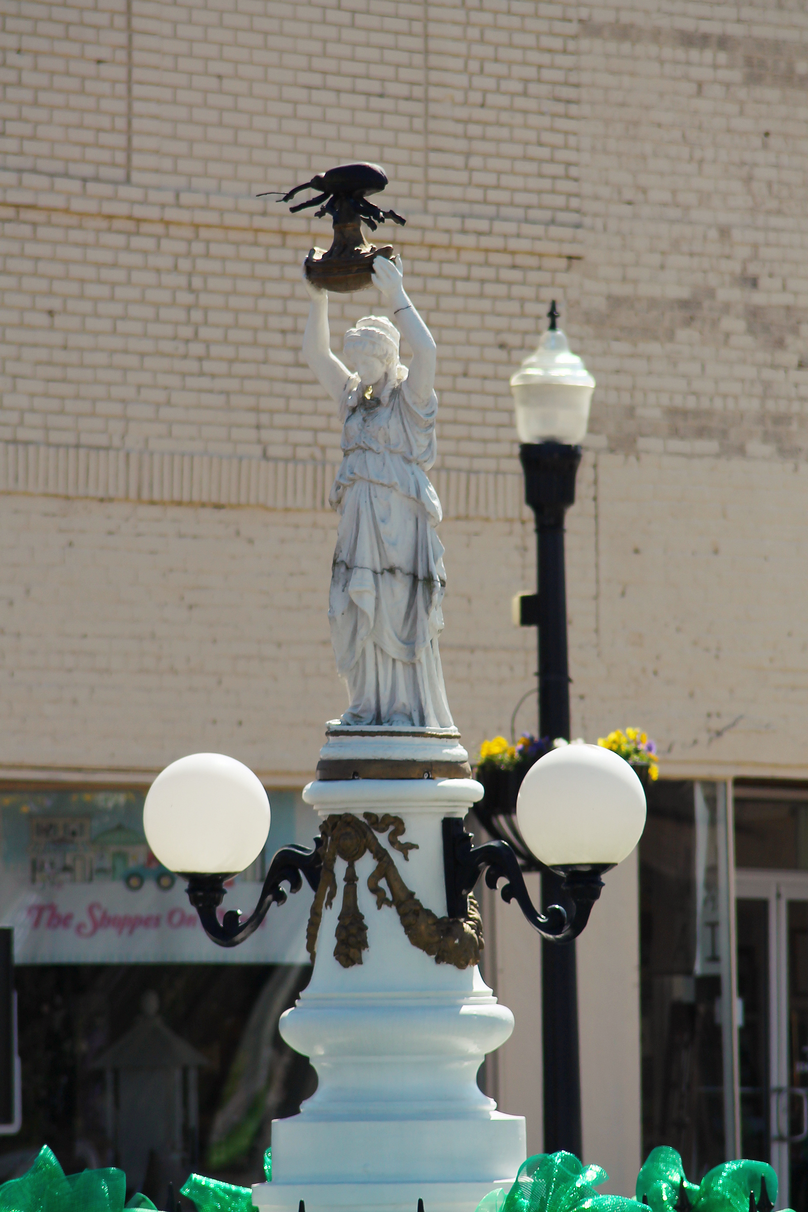 Quite possibly the only monument dedicated to a destructive insect.